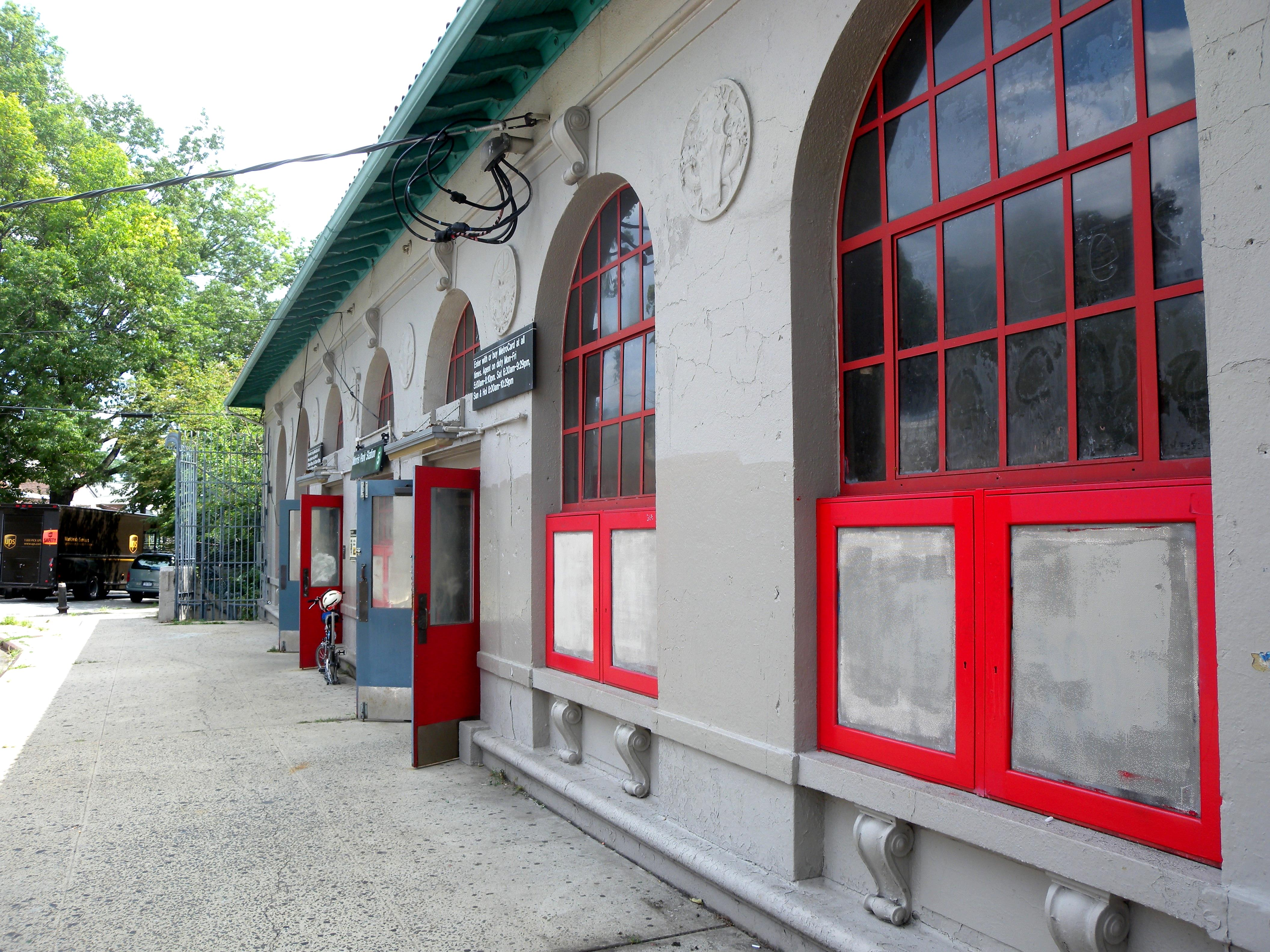 Looking south along facade of Morris Park station on a mostly sunny midday.